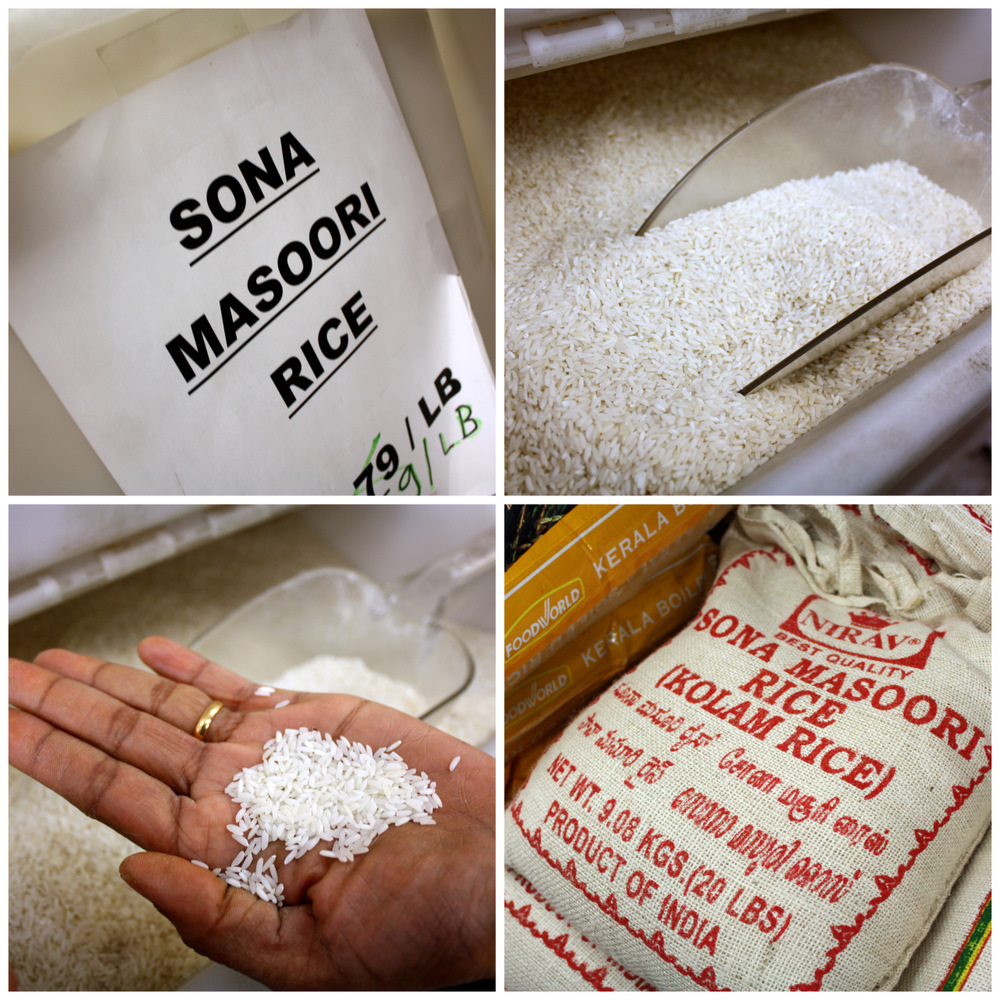 Sona masoori rice is a much shorter-grained rice than basmati, and is available in large sacks or in bulk, in case you want to give it a shot in a small quantity. According to Wikipedia: "Sona Masuri is largely considered to be a healthy dish as it contains less starch and is easily digestible. It is ideal for preparing dishes like sweet pongal, biryani, and fried rice & even daily cooking." Karuna: "Sona Masuri rice is to South Indians what Jasmine Rice is to Thailand."